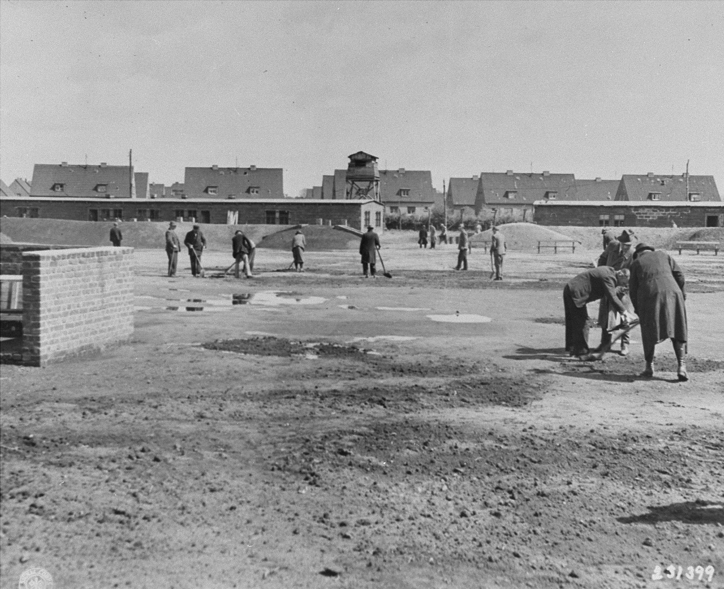 see title